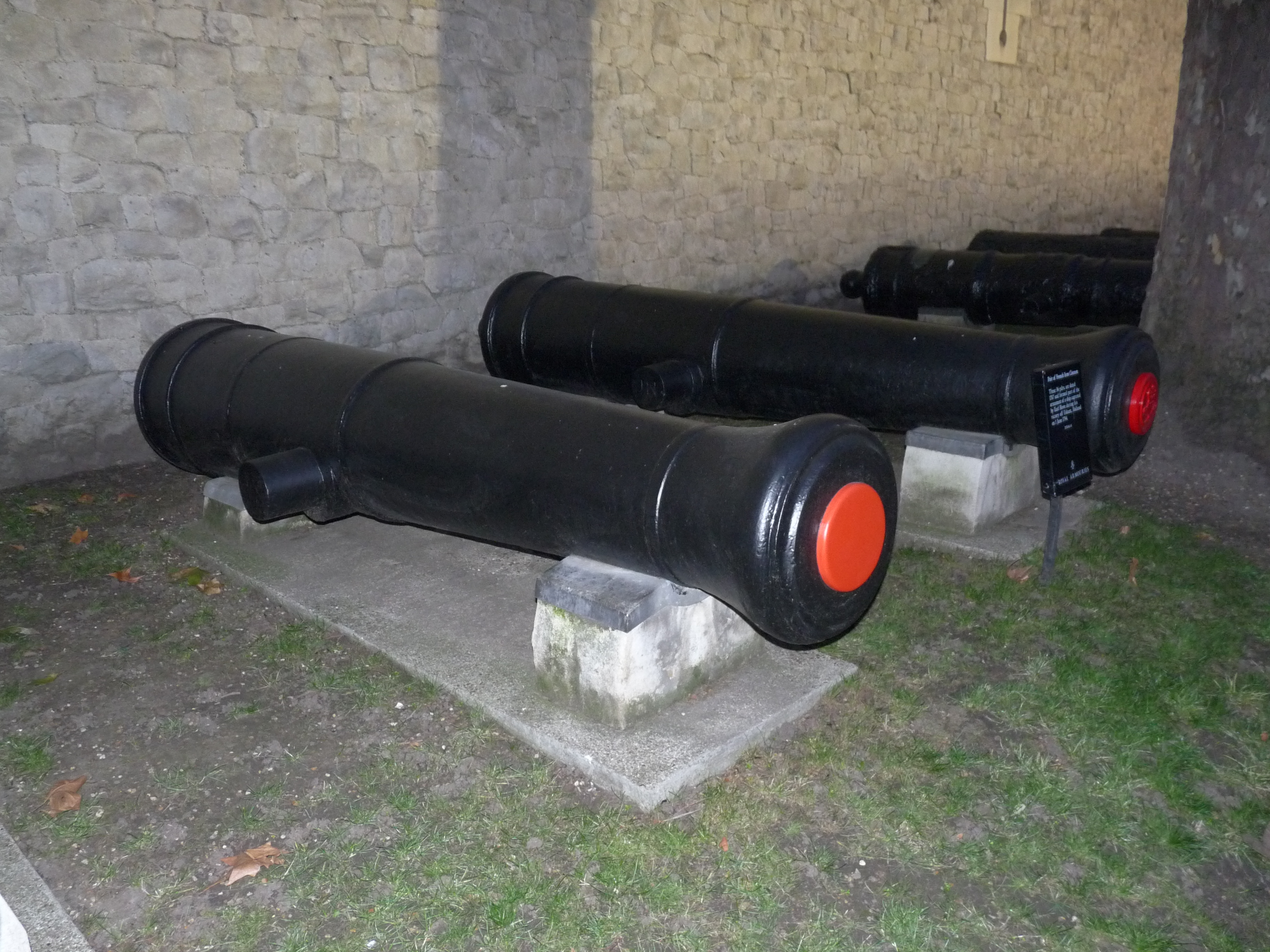 Tower of London - Royal Armouries A pair of french iron canon - These 36 pdrs. are dated 1787 and formed part of the armament of a ship captured by Earl Howe during his victory off Ushant, France) (The information panel is wrong on this point, it said that Ushant was in Holland-), on 1st June 1794.